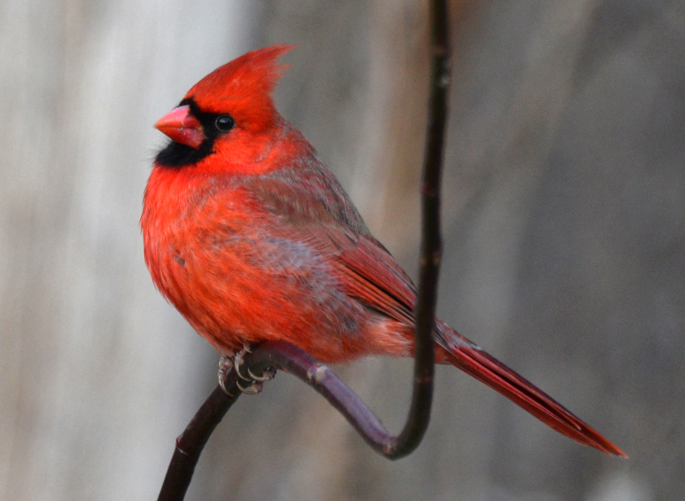 Northern Cadinal (male) perching in Lambton Woods Park in Toronto